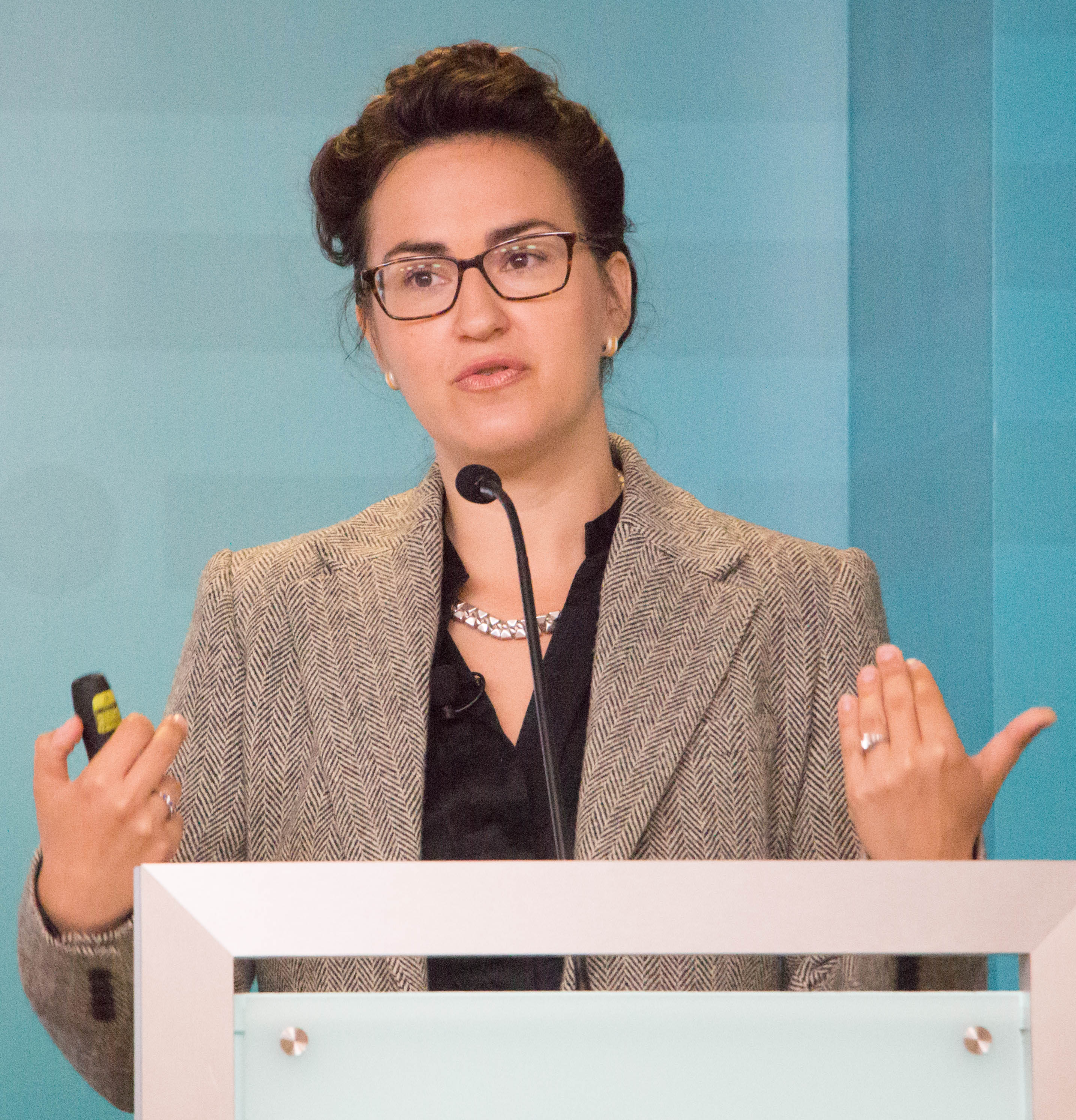 Athena Aktipis, Assistant Professor, Psychology Department, Arizona State University, Co-Founder, International Society for Evolution, Ecology and Cancer, at a New America discussion: "America's Longest War, Against Cancer"